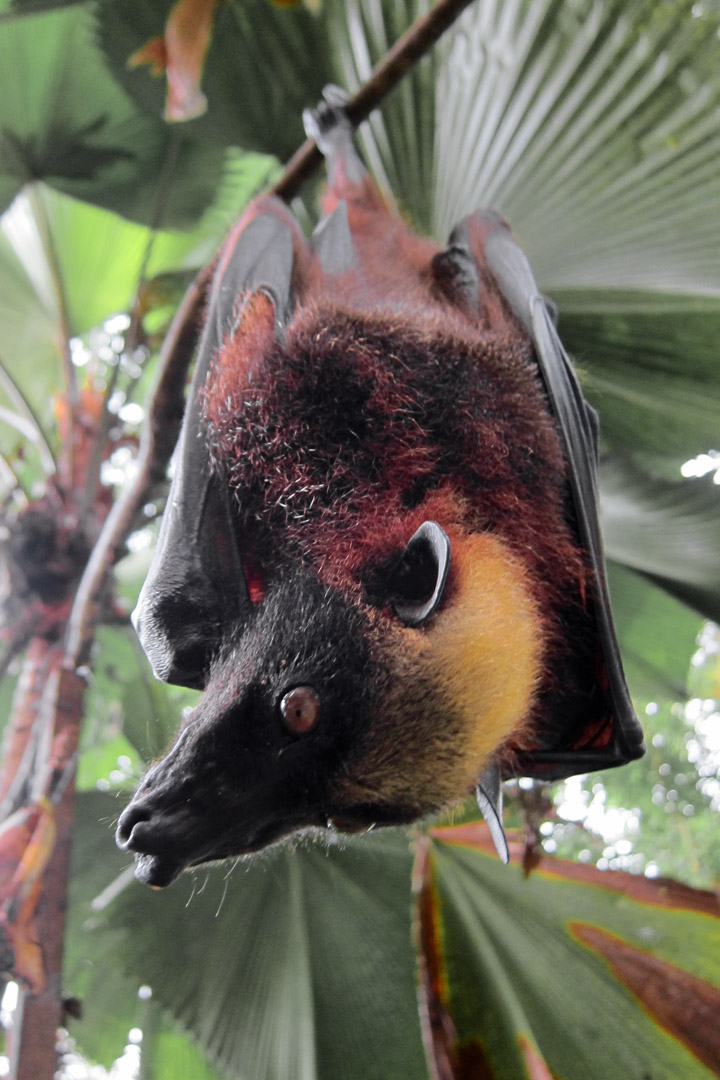 A resting Acerodon jubatus (Golden Crowned Flying Fox), taken by Gregg Yan. This particular individual was found hanging from a tree on the outskirts of Davao City on the island of Mindanao in the Philippine Islands.Tagalog: Isang Acerodon jubatus (paniki) na nakita sa Davao.